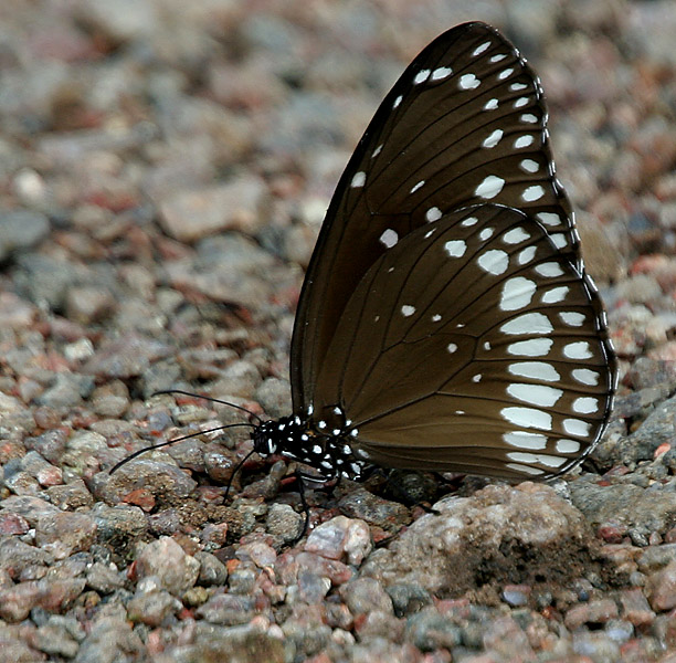 Common Indian Crow Euploea core in Kawal Wildlife Sanctuary, Andhra Pradesh, India.